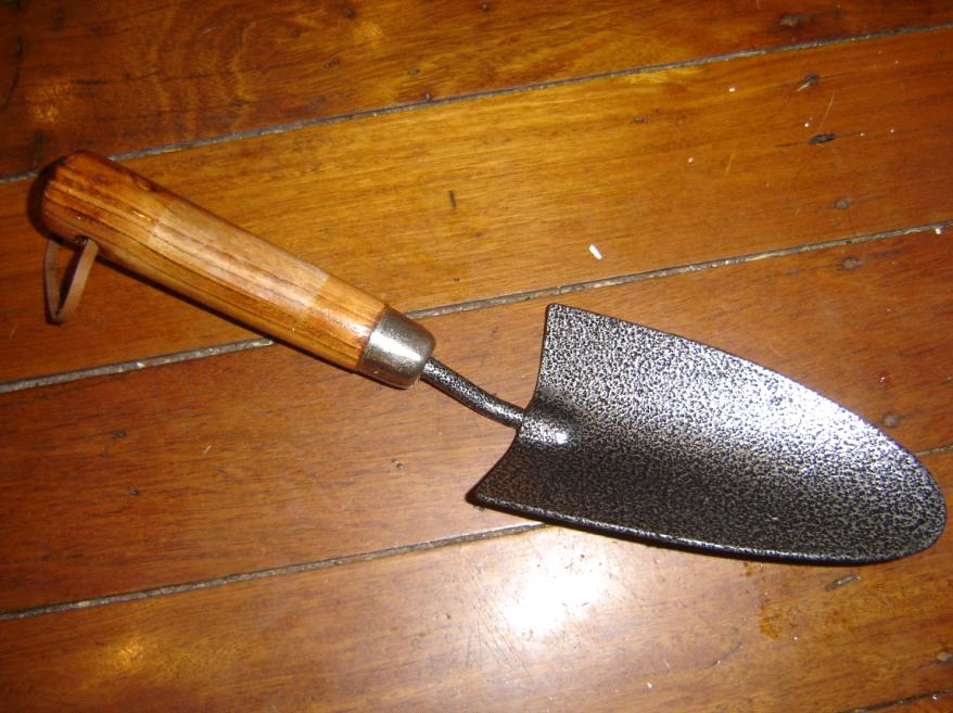 A trowel.